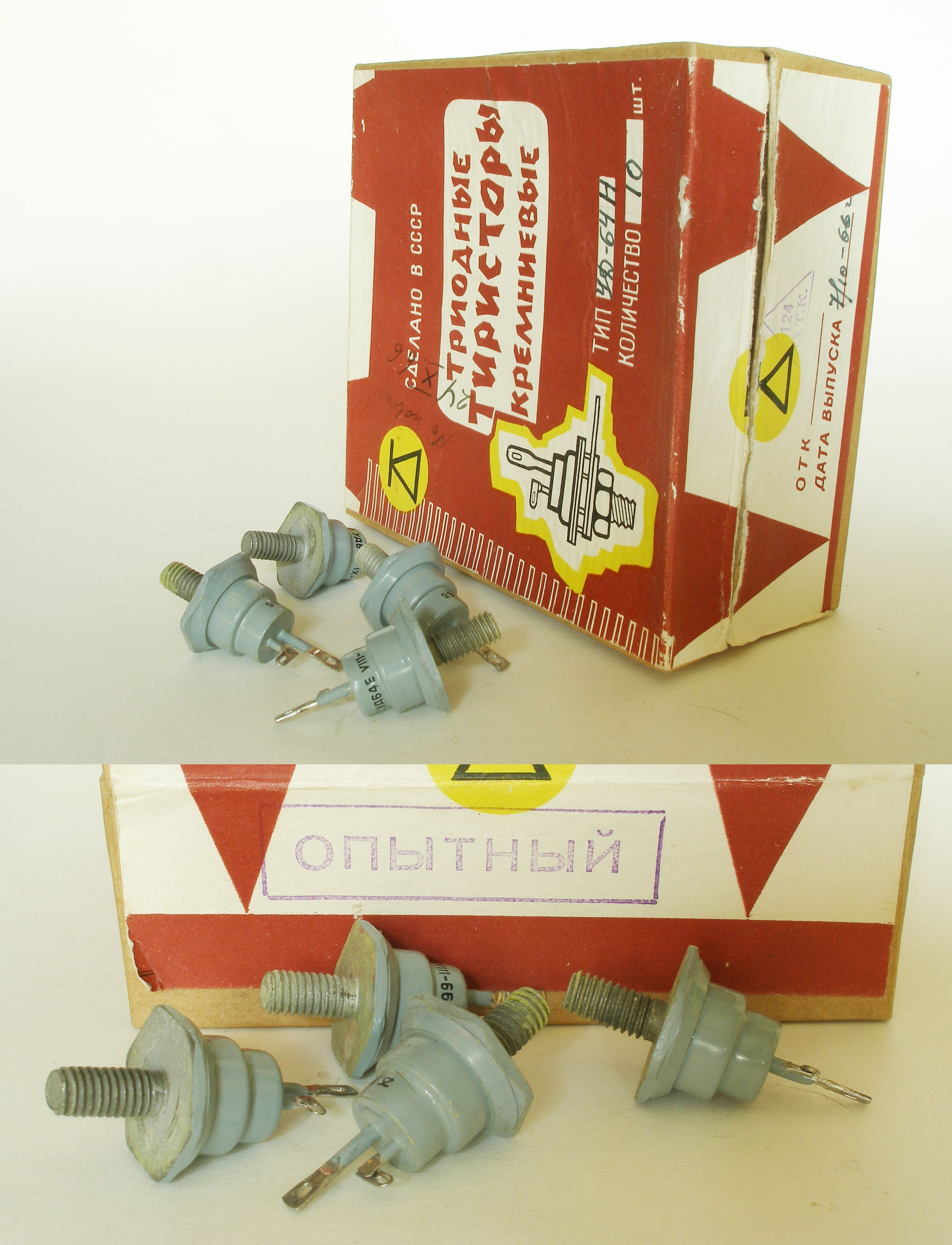 Old soviet thyristors